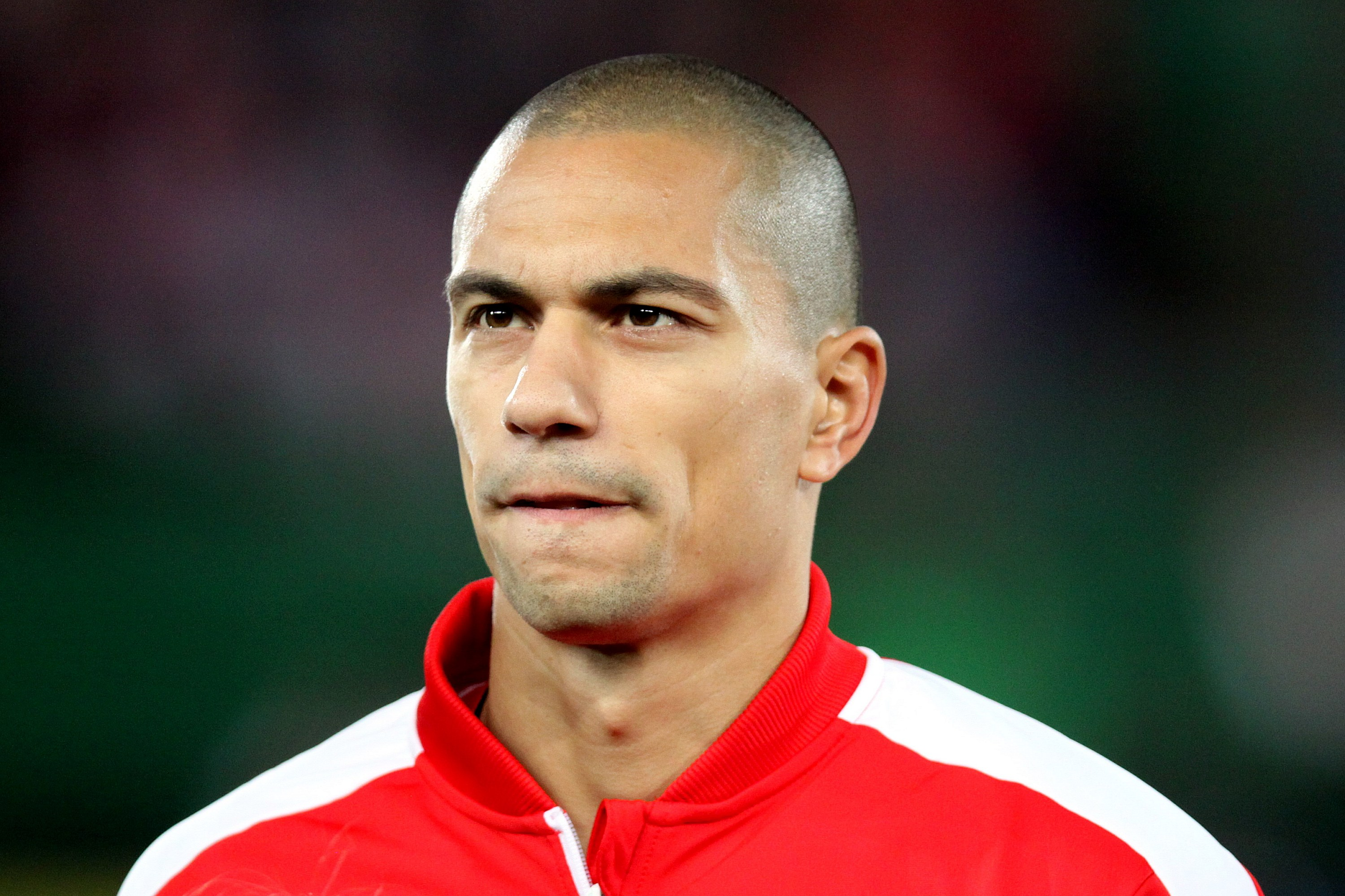 Friendly match – Austria (red shirts) vs. Switzerland (white shirts) 1-2 (1-2) – 2015-11-17 in Vienna, Ernst-Happel-Stadion – The photo shows Gökhan Inler (Switzerland).